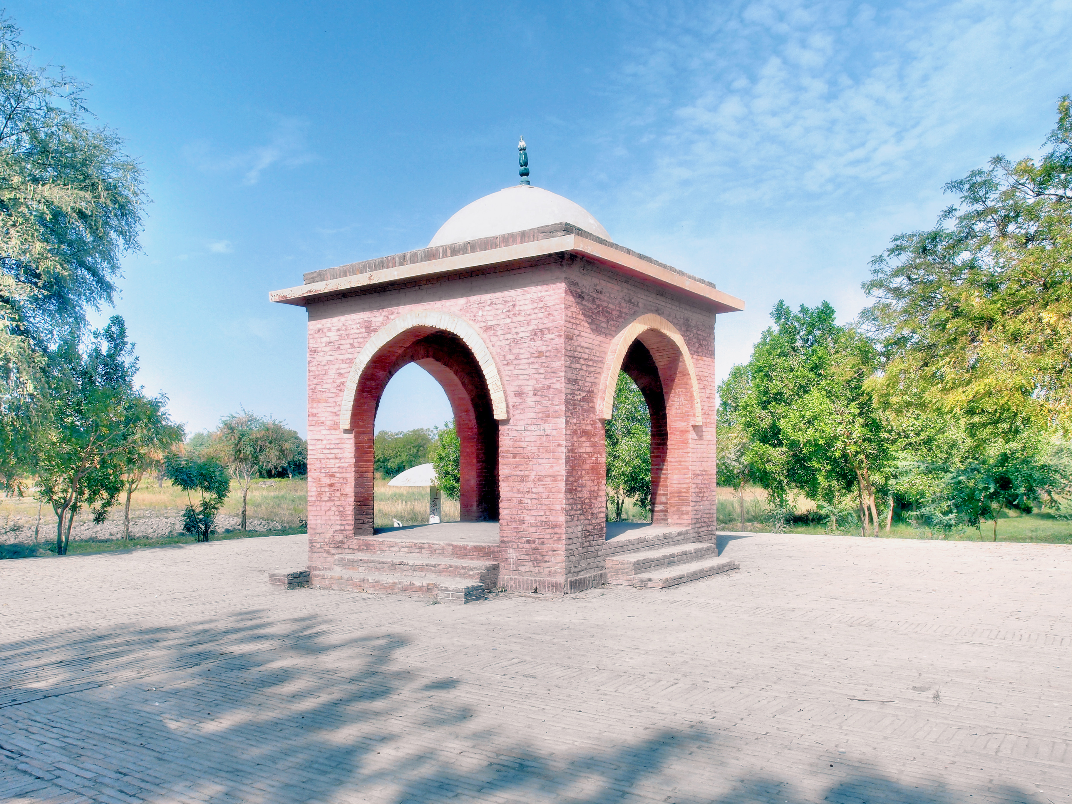 Birthplace of Mughal Emperor Akbar in Umerkot. Akbar was the Mughal Emperor from 1556 until his death in 1605 and was the third and one of the greatest ruler of the Mughal Dynasty in India.